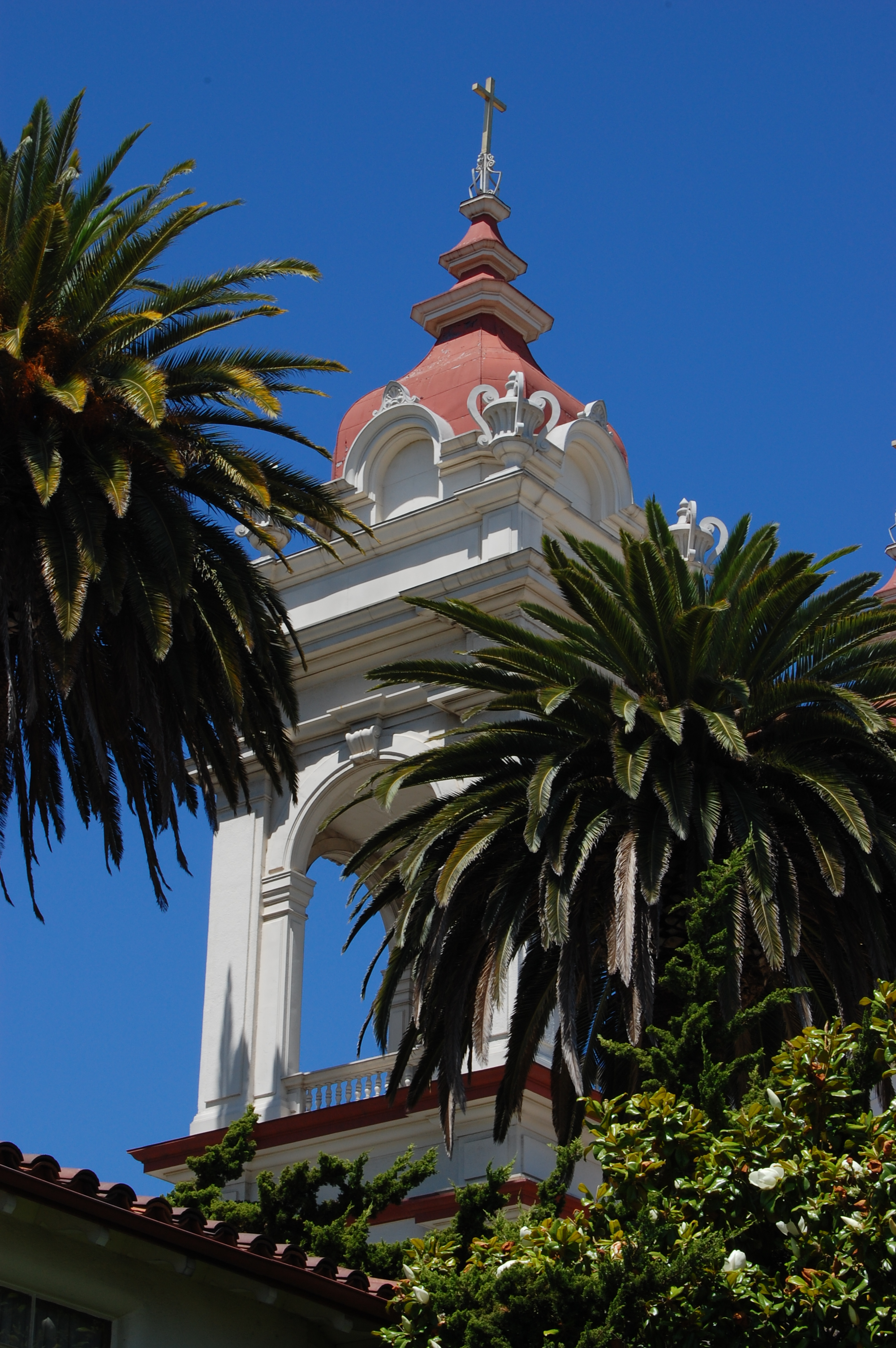 Church of the Five Wounds. 1375 East Santa Clara St Street. San Jose, California, USA